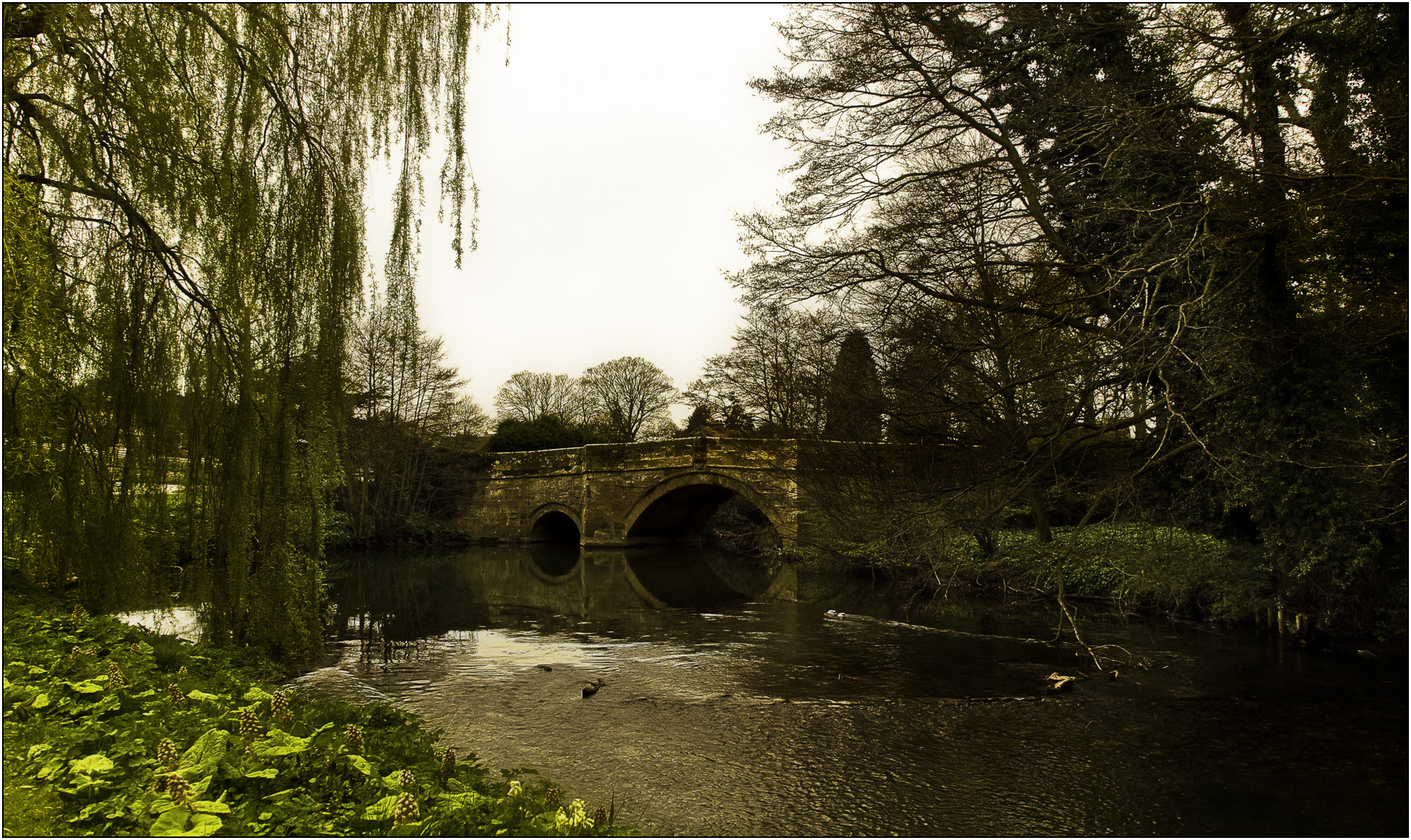 Great Britain, Nunnington Hall, Bridge